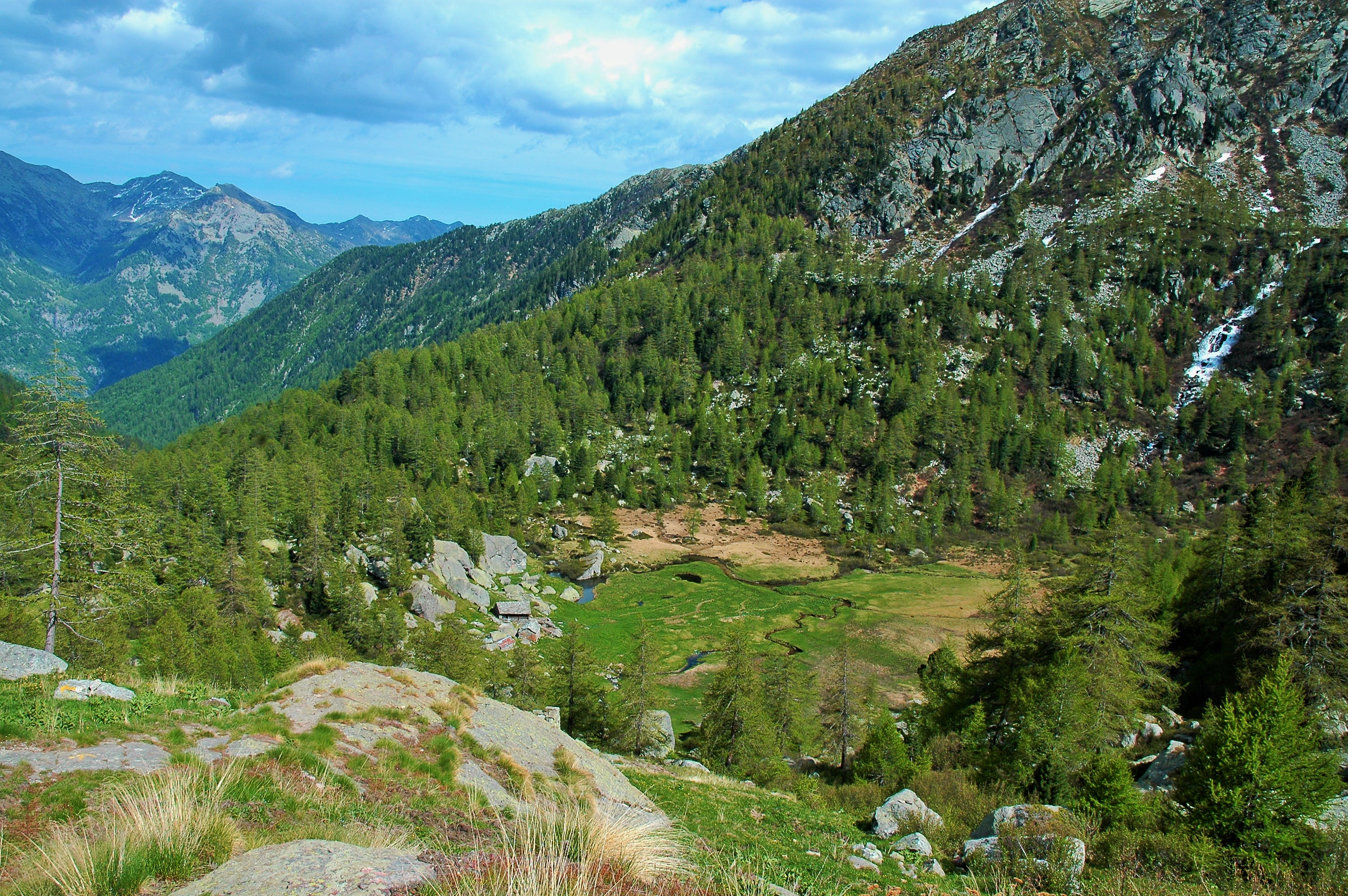 Peat bog of Réich (Valley of San Grato, Issime, Val d'Aosta)